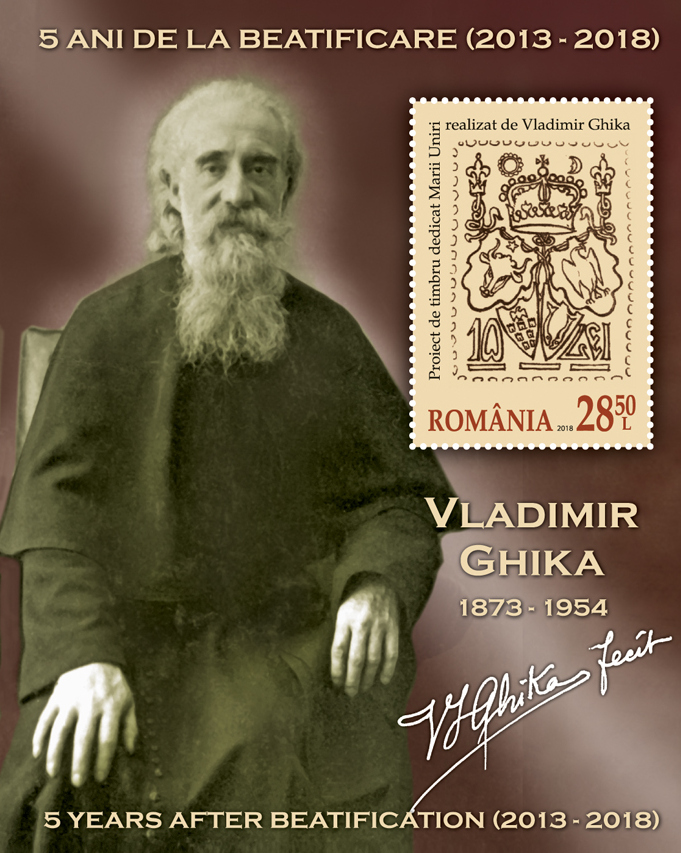 Vladimir Ghika